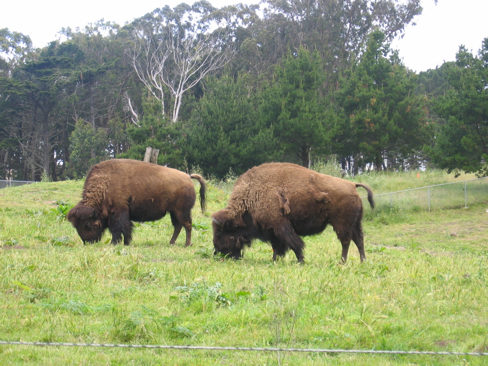 from Golden Gate Park in San Francisco, California, USAEarth Day @ Golden Gate Park.